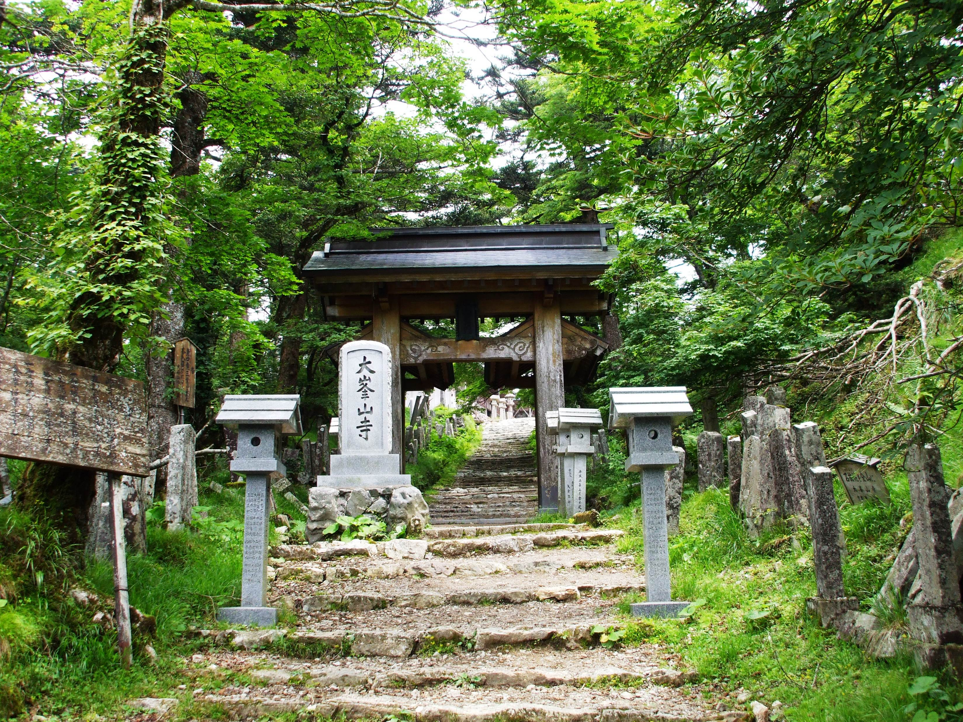 The Main gate of Ōminesanji Temple, Nara, Japan.